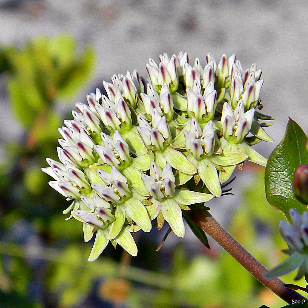 The endangered Curtiss' Milkweed greeting the morning Sun in the oak scrub at Juno Dunes Natural Area. This was taken before the swarm of queen butterflies arrived. I have photographed this species before but had to again as I love it much. Here is a short video from this natural area